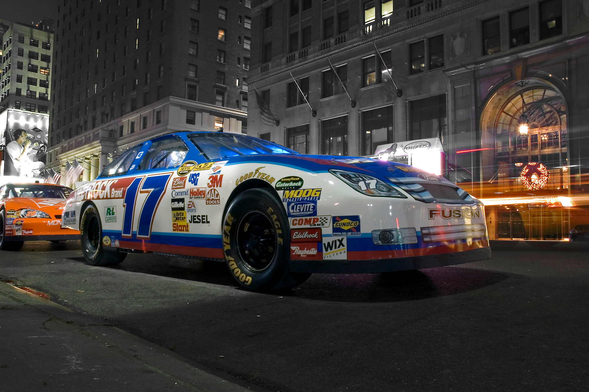 The picture shows Matt Kenseth’ #17 Ford Fusion.Original text: "NASCAR's doing a Pit Stop Tour this week in Manhattan. There are over a half-dozen cars spread around midtown-ish for your viewing, picture-taking, and listening pleasure. Every once-in-awhile, they fire one up and rev the engine. omg -LOUD!I used my new gorillapod to shoot this early this morning.Maps & info available here."NYC_NASCAR_01